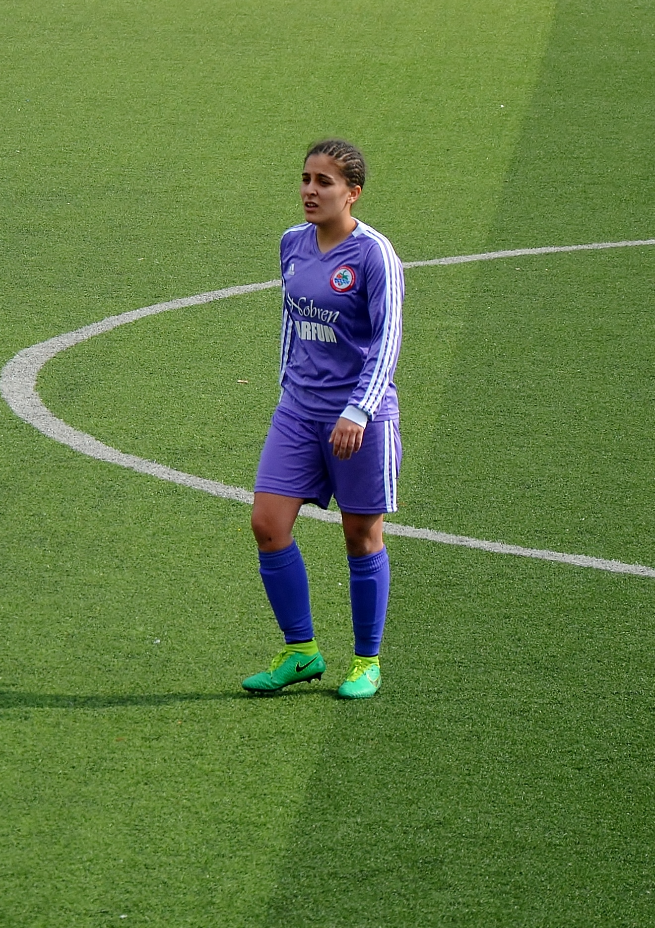 Başak İçinözbebek playing for Karadeniz Ereğlispor in the 2014-15 season away match against Ataşehir Belediyespor.